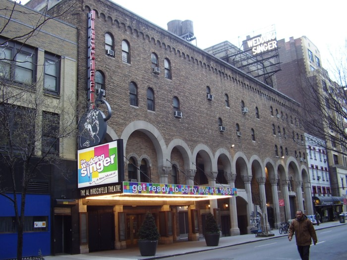 Al Hirschfeld Theatre, NYC 2006. Photo by Mademoiselle Sabina